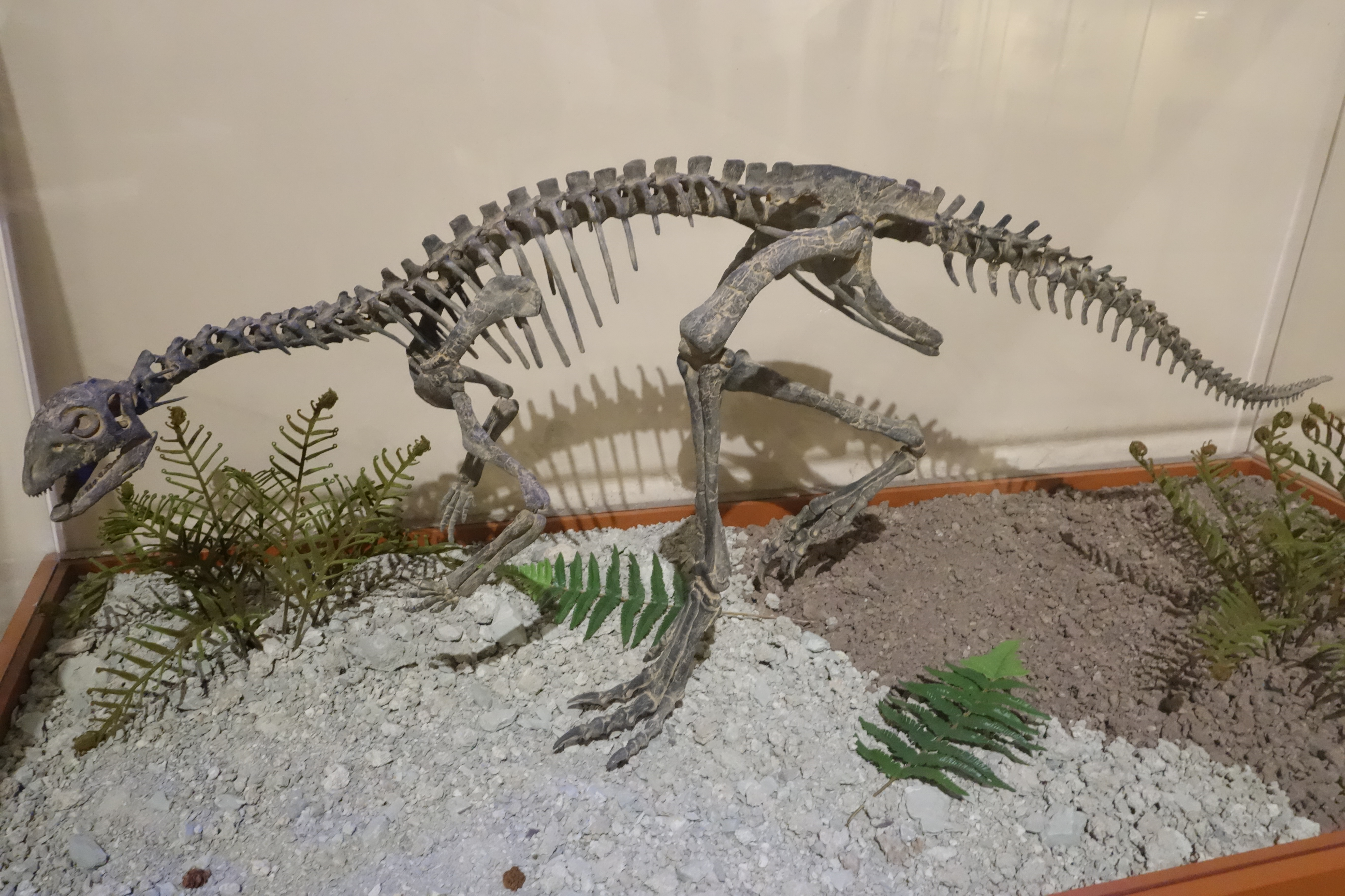 Skeletal cast of Othnielosaurus (labeled as Othnielia), on display at the Museum of Western Colorado’s Dinosaur Journey Museum in Fruita, Colorado